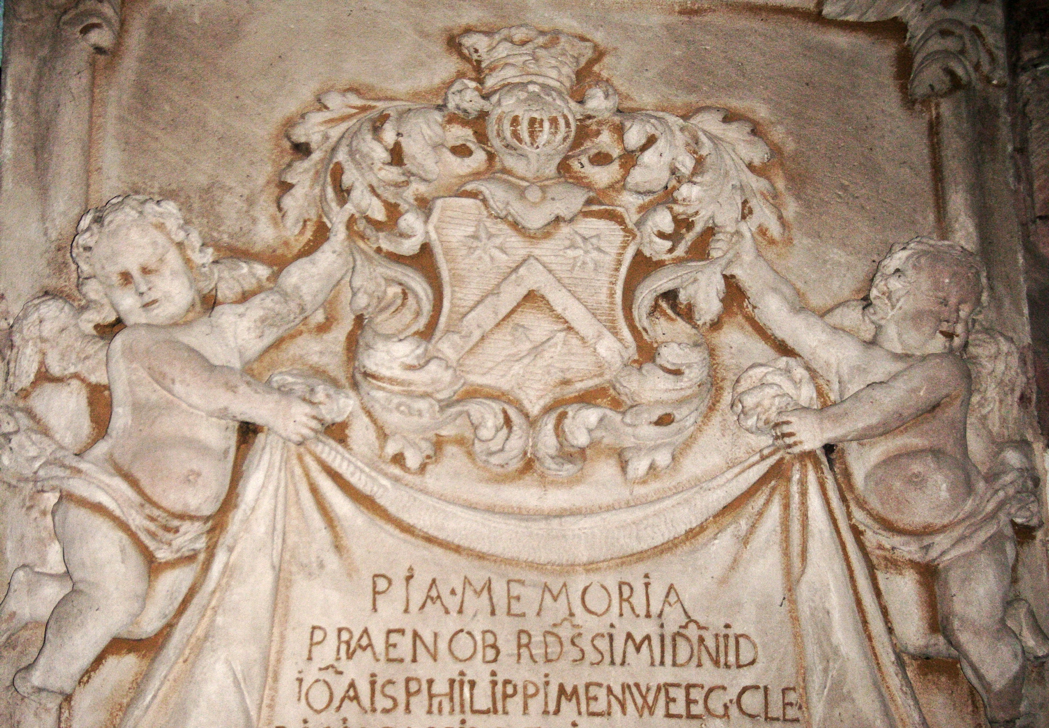 Wappen der elsässischen Adelsfamilie Menweeg, in der Stiftskirche Landau (Pfalz)